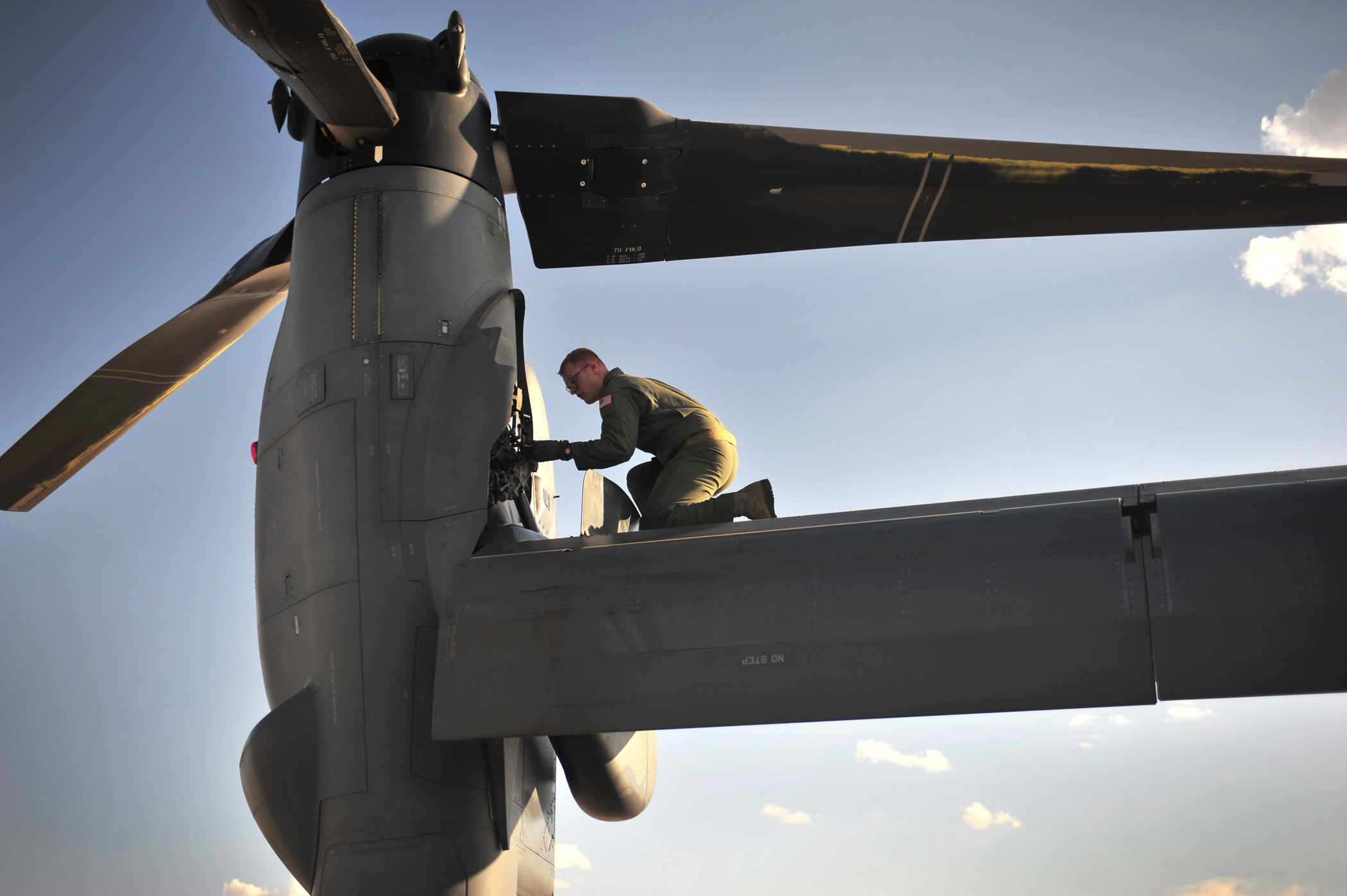 U. S. Air Force Staff Sgt. Casey Spang inspects one of the tilt-rotors on a CV-22 Osprey prior to takeoff from the flight line at Cannon Air Force Base, N.M., on July 5, 2012. The 20th Special Operations Squadron conducted a routine training flight over Melrose Air Force Range, N.M. Spang is a 20th SOS flight engineer.